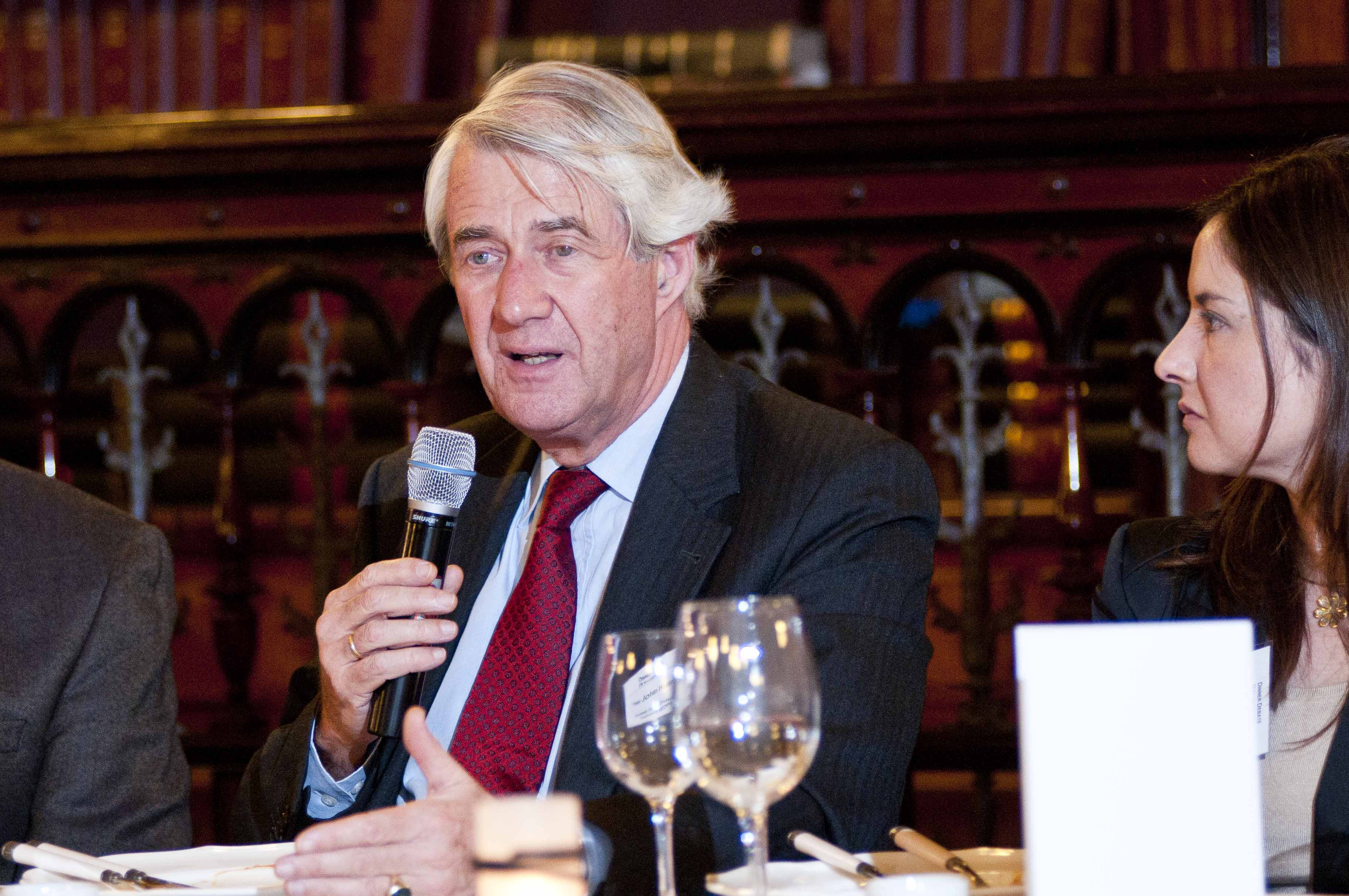 2010.11.29_FOE Telefonica_low-037